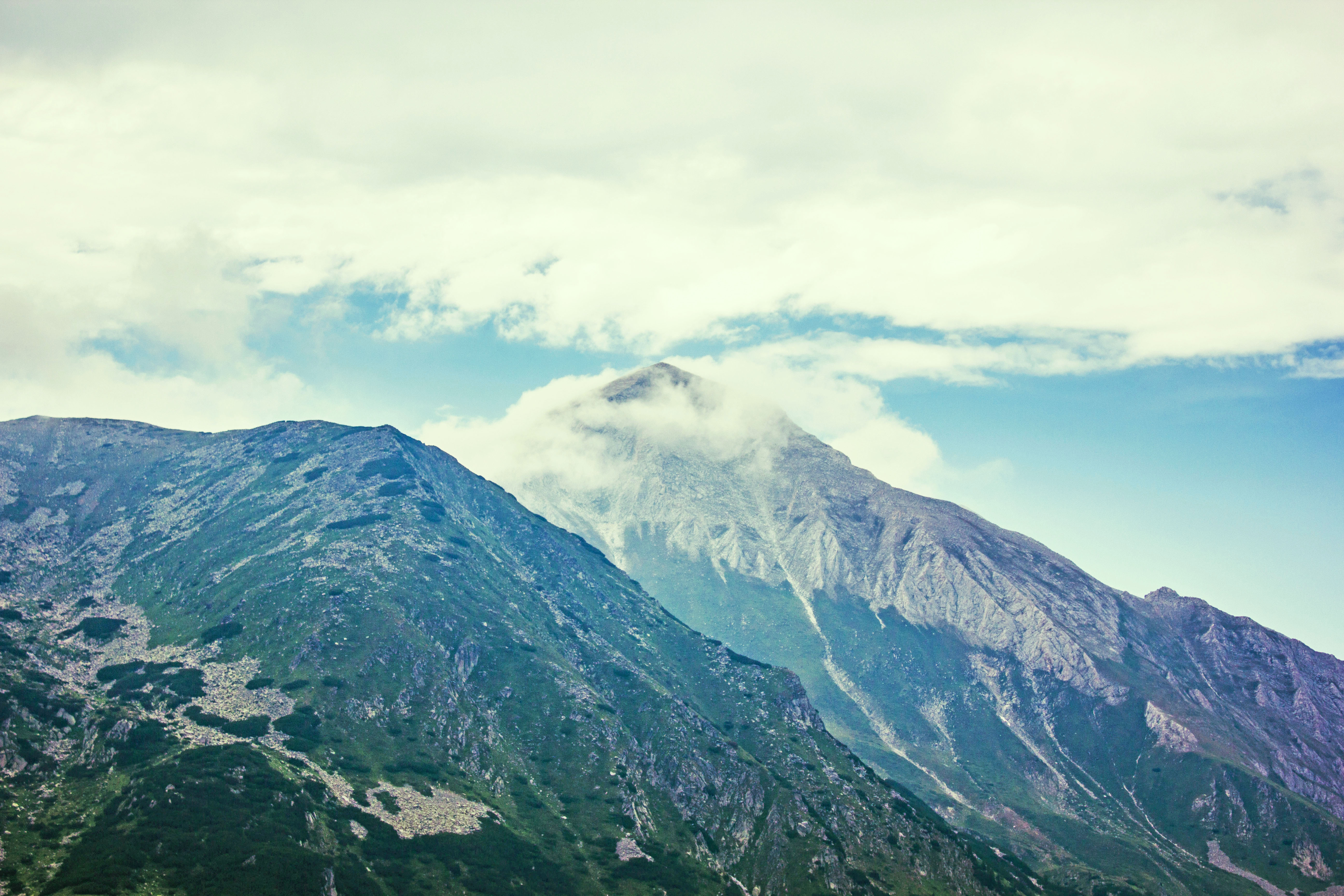 Vihren is the highest peak of Bulgaria's Pirin Mountains. Reaching 2,914 metres (9,560 ft), it is Bulgaria's second and the Balkans' third highest, after Musala and Mount Olympus.